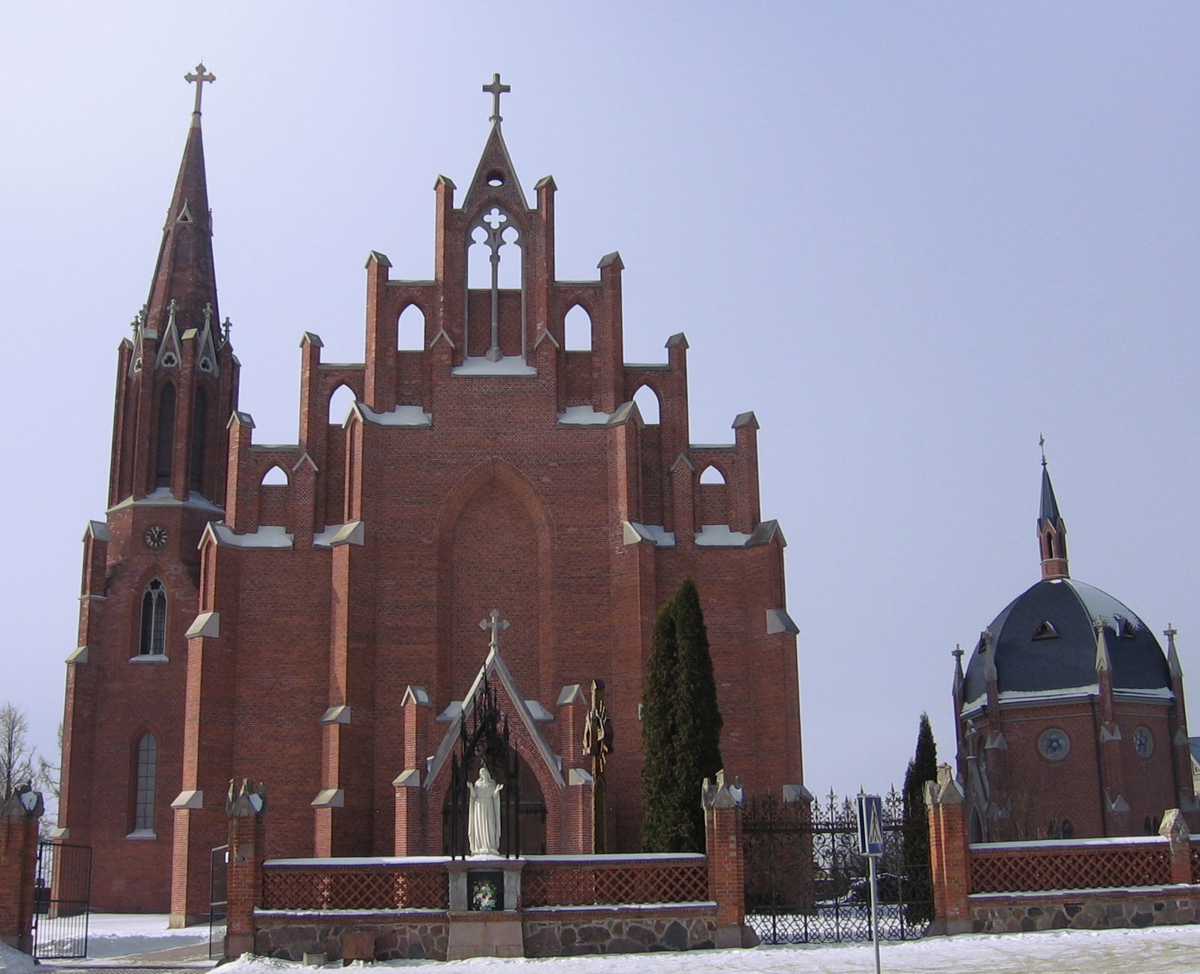 Church of Rokiškis